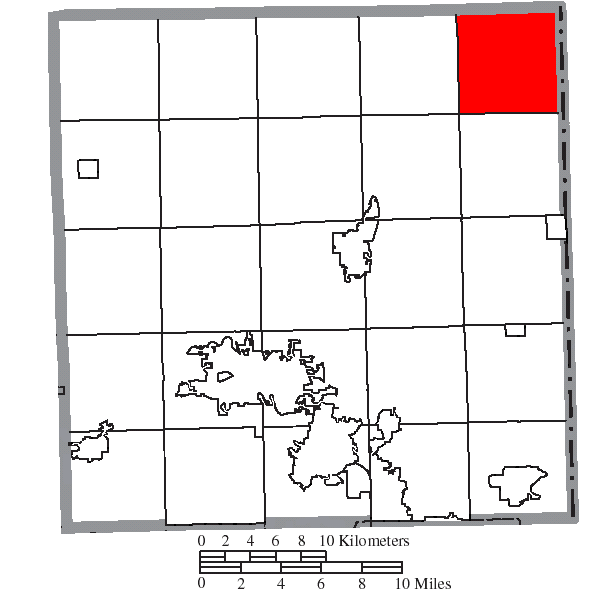 Map of the municipal and township boundaries of Trumbull County, Ohio, United States, as of the 2000 census, with the location of Kinsman Township highlighted. Township borders are shown only in unincorporated areas in order to differentiate incorporated and unincorporated areas more clearly.